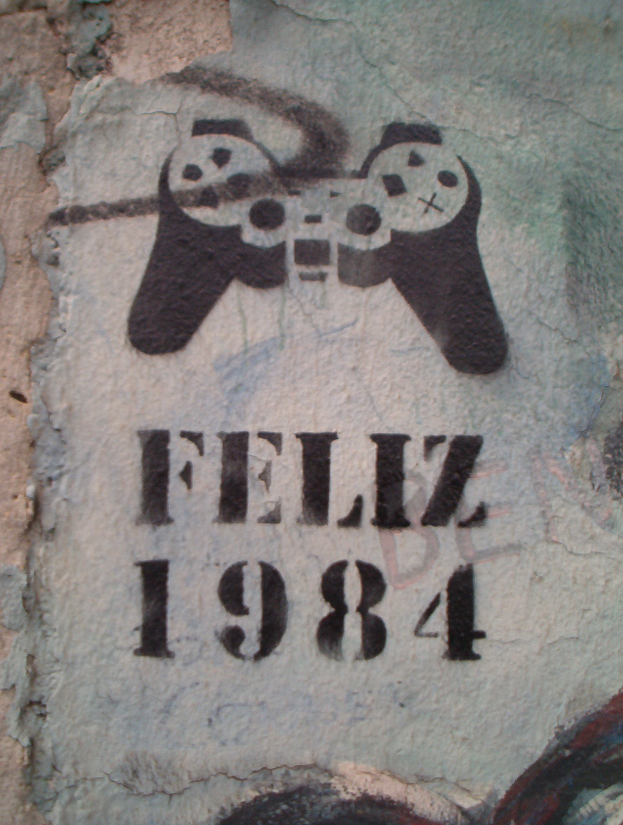 Info: A graffiti stencil, from Berlin Germany. Found on the Berlin wall. Translation from Spanish or